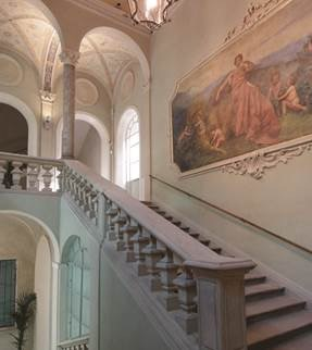 Palazzo Galli